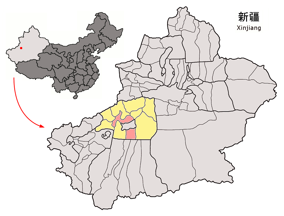 Location of Aksu County (pink) and Aksu Prefecture (yellow) within Xinjiang autonomous region of China Map drawn in september 2007 using various sources, mainly : Xinjiang Uygur autonomous region administrative regions GIS data: 1:1M, County level, 1990 Xinjiang Counties map from